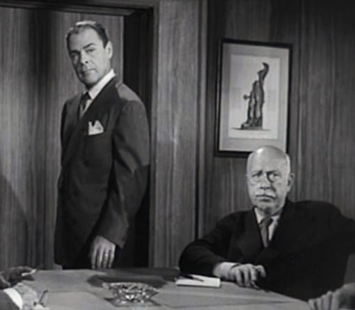 Brian Donlevy (left) and Stuart Holmes in Impact (1949) - cropped screenshot